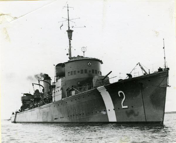 The Swedish destroyer HMS Nordenskjöld during World War II.